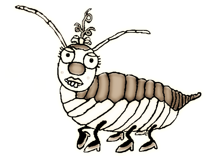 Stone louse female, free according to Loriot.